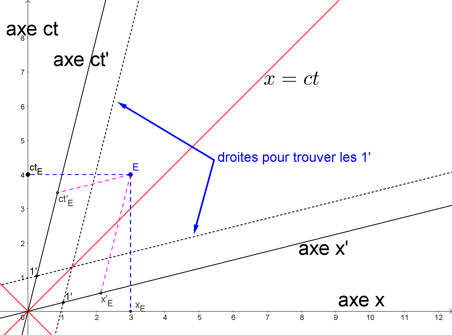 minkowski diagram+graduations